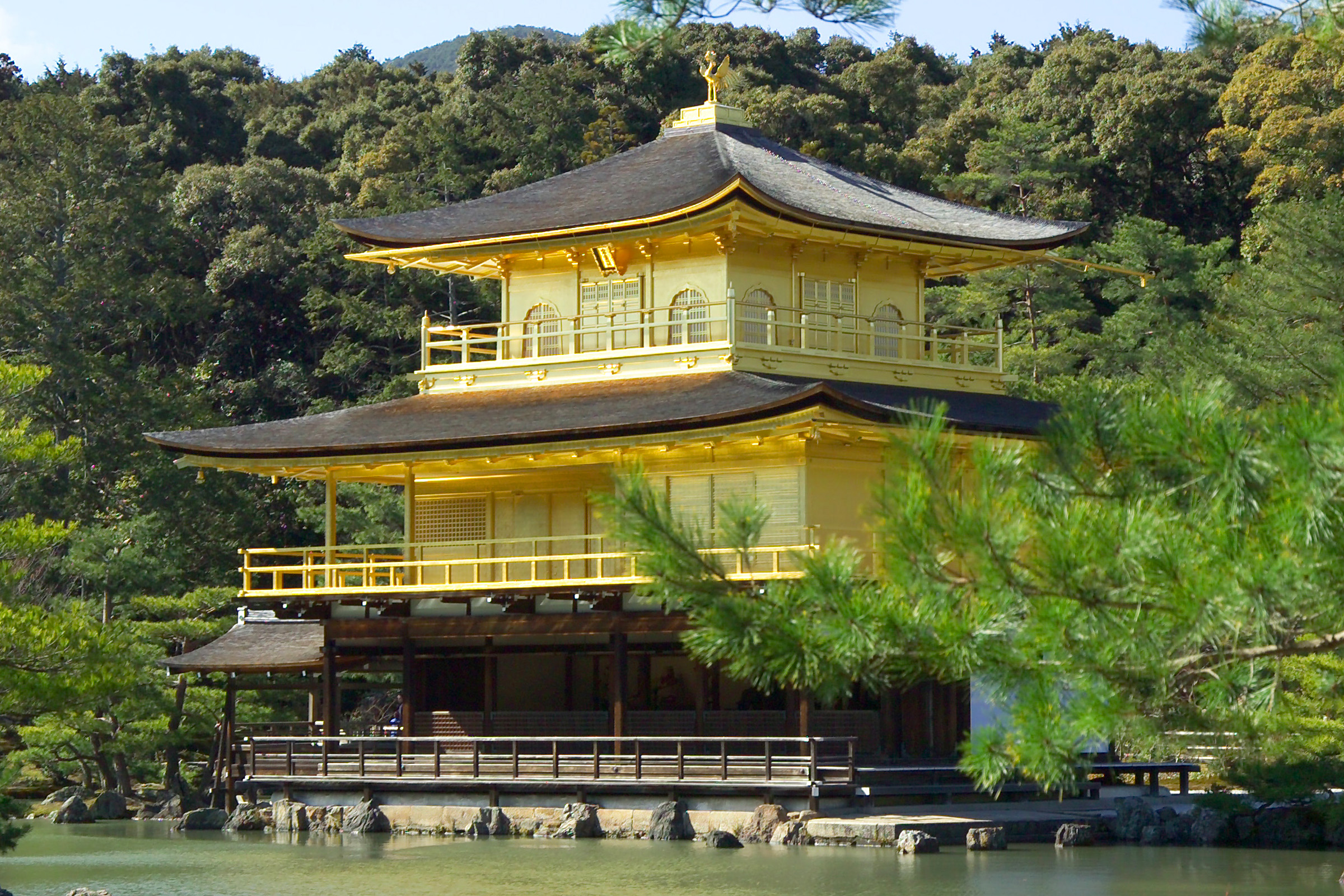 The building in this photograph is the Kinkaku, or Golden Pavilion, which is the shariden at Rokuonji, the Temple of the Golden Pavilion, in Kyoto, Japan. I took the photo.